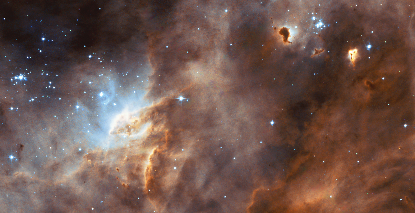 The star formation region N11B in the LMC taken by WFPC2 on the NASA/ESA Hubble Space Telescope.